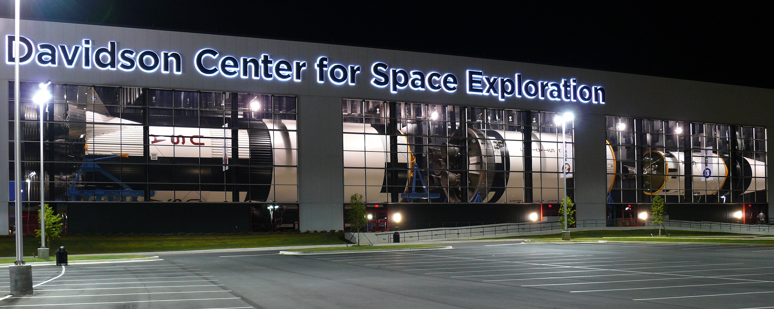 One of two Saturn V launch vehicles on display at the U.S. Space & Rocket Center, this test article, SA-500D hangs in the main hall of the Davidson Center for Space Exploration. For scale, there is a person standing at the far right just outside the building and beneath the SLA.Photo taken with a Panasonic Lumix DMC-FZ50 in Huntsville, AL, USA.